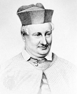 Frederick William Faber, engraving by Joseph Brown BBC Hulton Picture Library